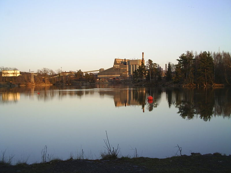 The company Vargön Alloys located at Göta Älv in Vänersborg, Sweden.